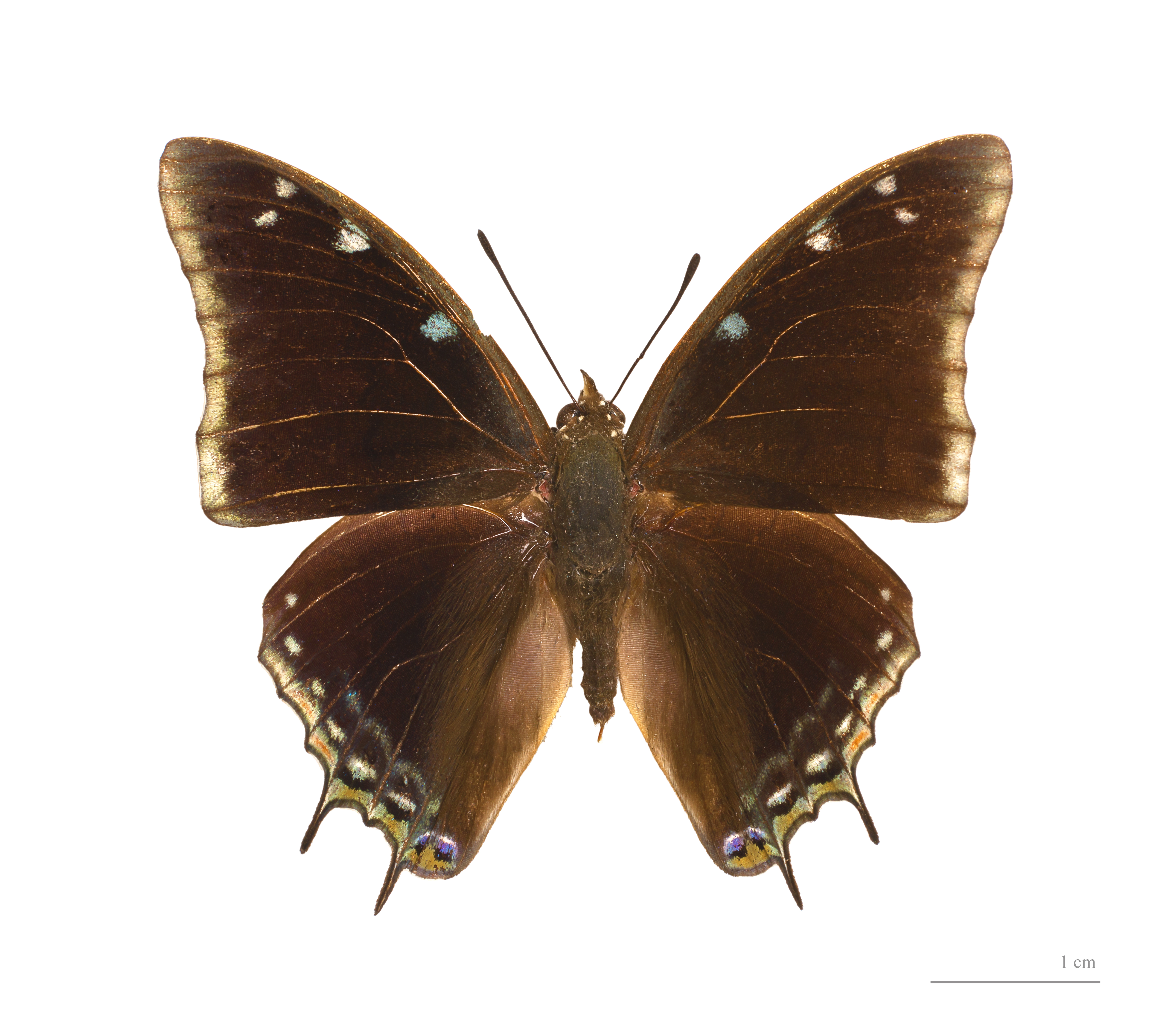 ♂ - Dorsal side Locality: Batalimon, Central African Republic.